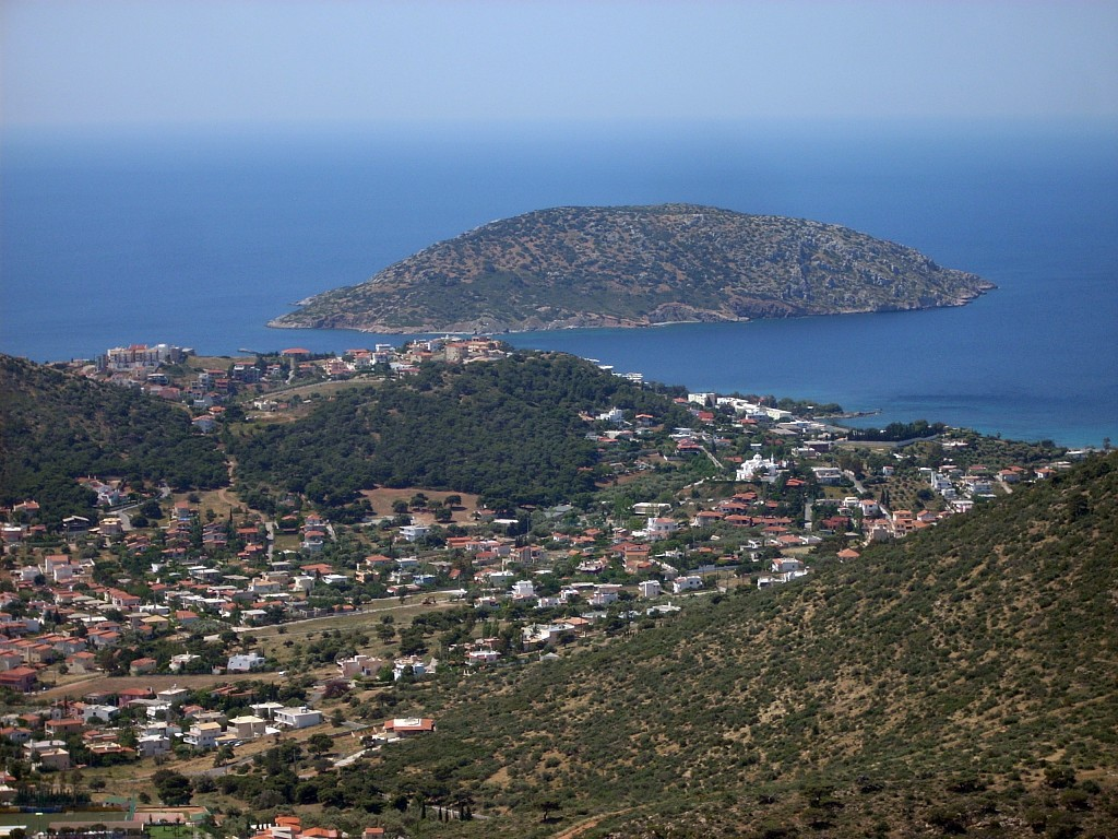 Saronida and Arsida island in Greece